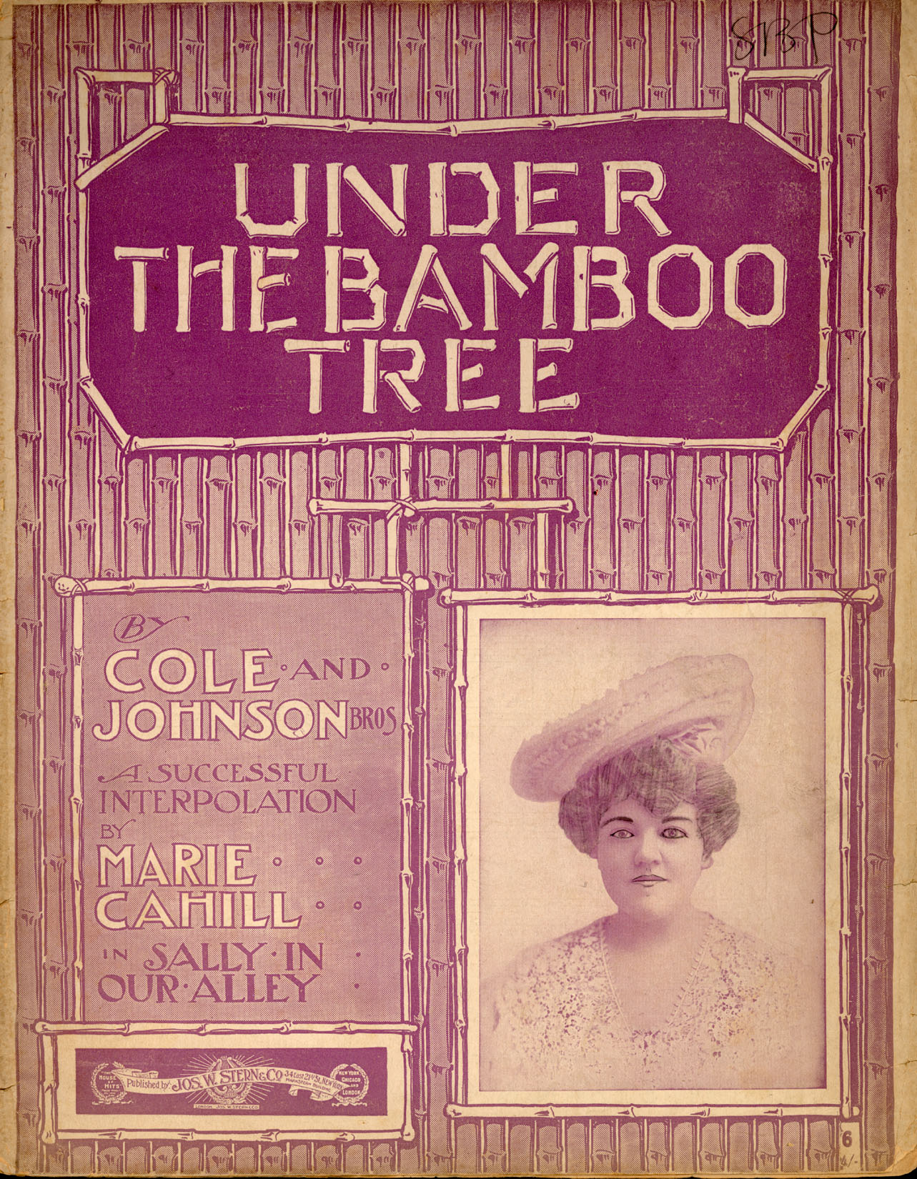 "Under the Bamboo Tree" sheet music cover, 1902. Cover has picture of singer Marie Cahill.